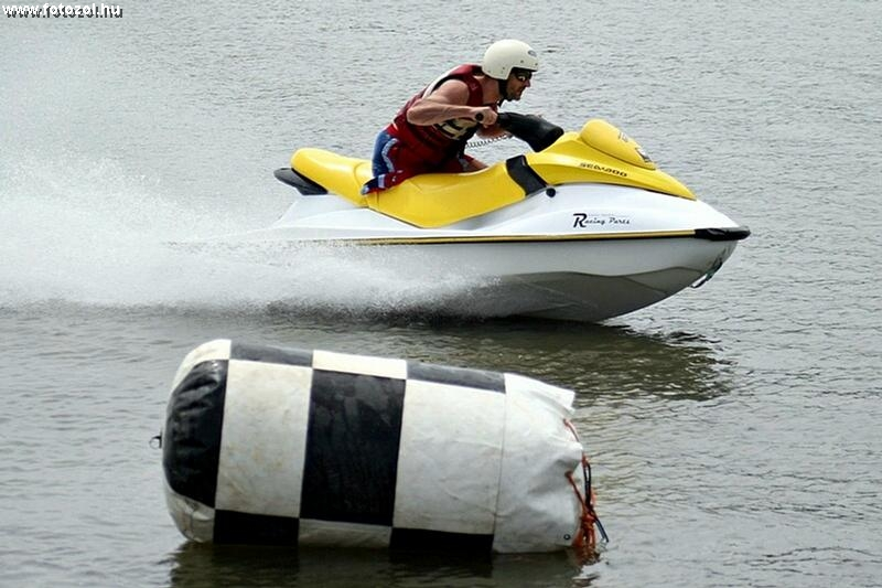 ParaJet-Ski national competition, (Hungary)